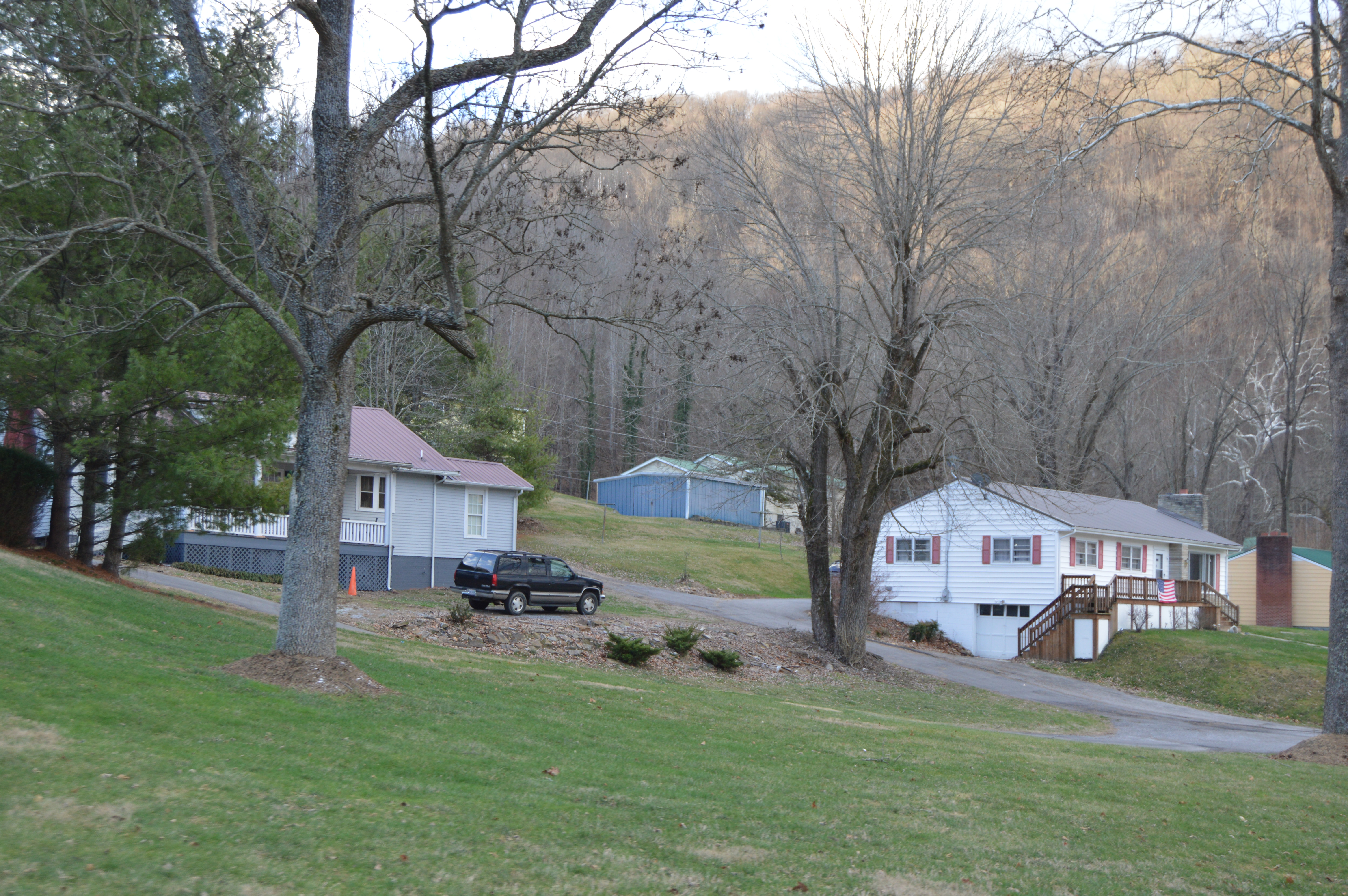 Houses on the southern side of Madison Street in southern Saltville, Virginia, United States. This was formerly the site of the Preston House; listed on the National Register of Historic Places, it has been destroyed, but it is officially still listed on the National Register.